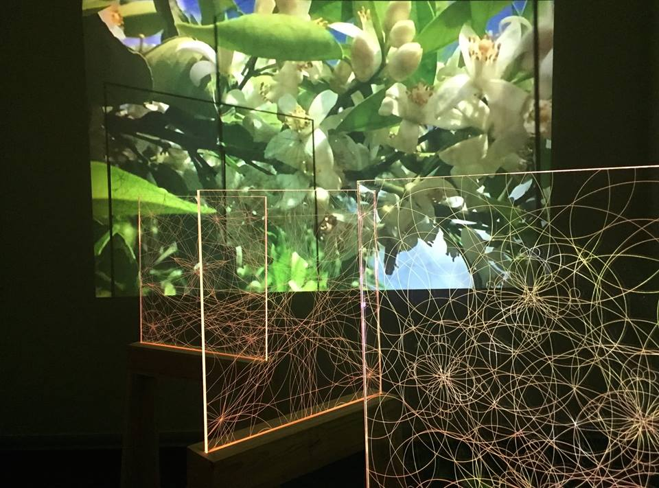 From “The Chronicles of Flowers” exhibition, Istanbul, Turkey, May, 9, 2017 - June, 17, 2017